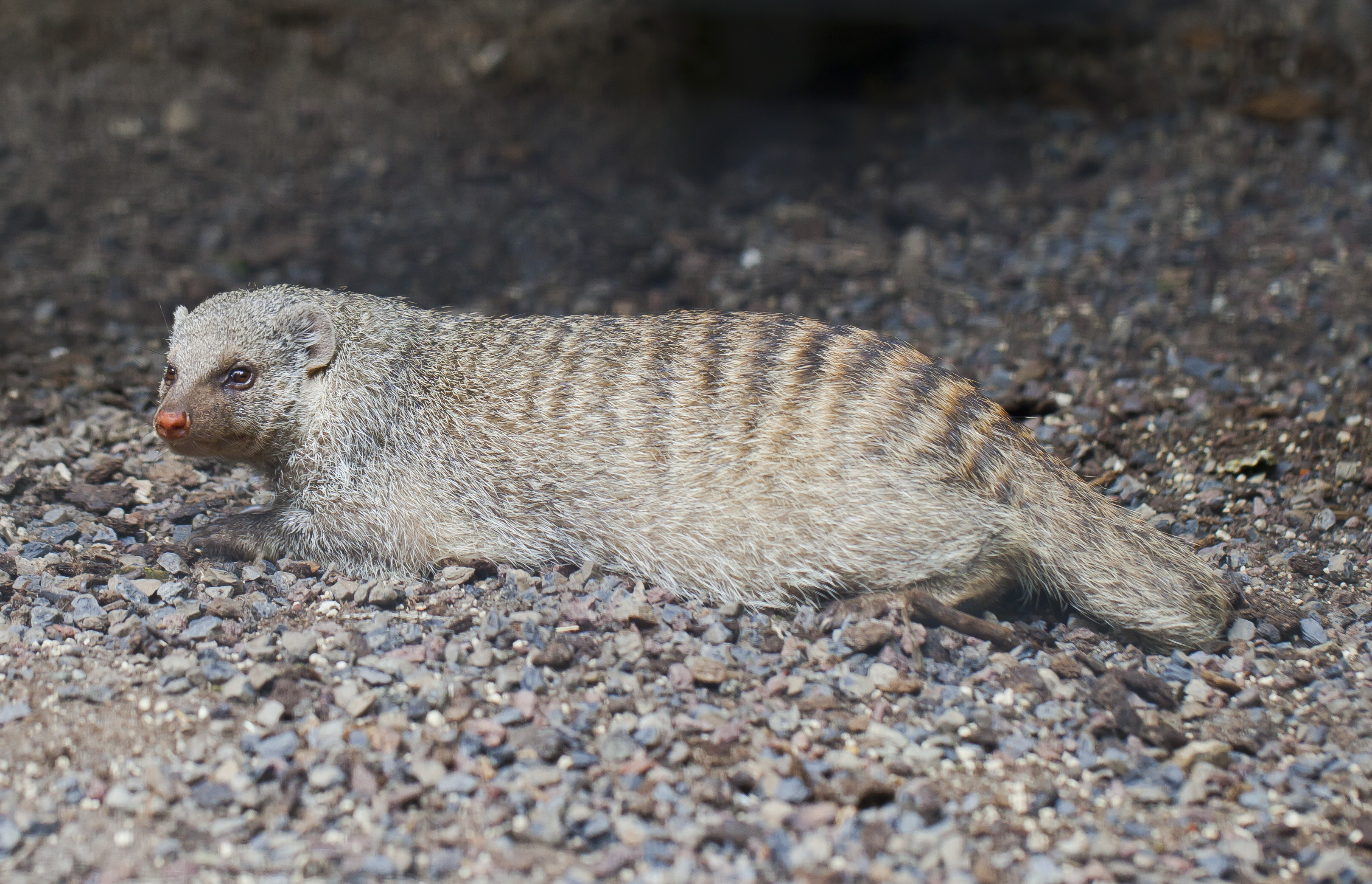 Banded mongoose (Mungos mungo), Tierpark Hellabrunn, Munich, Germany